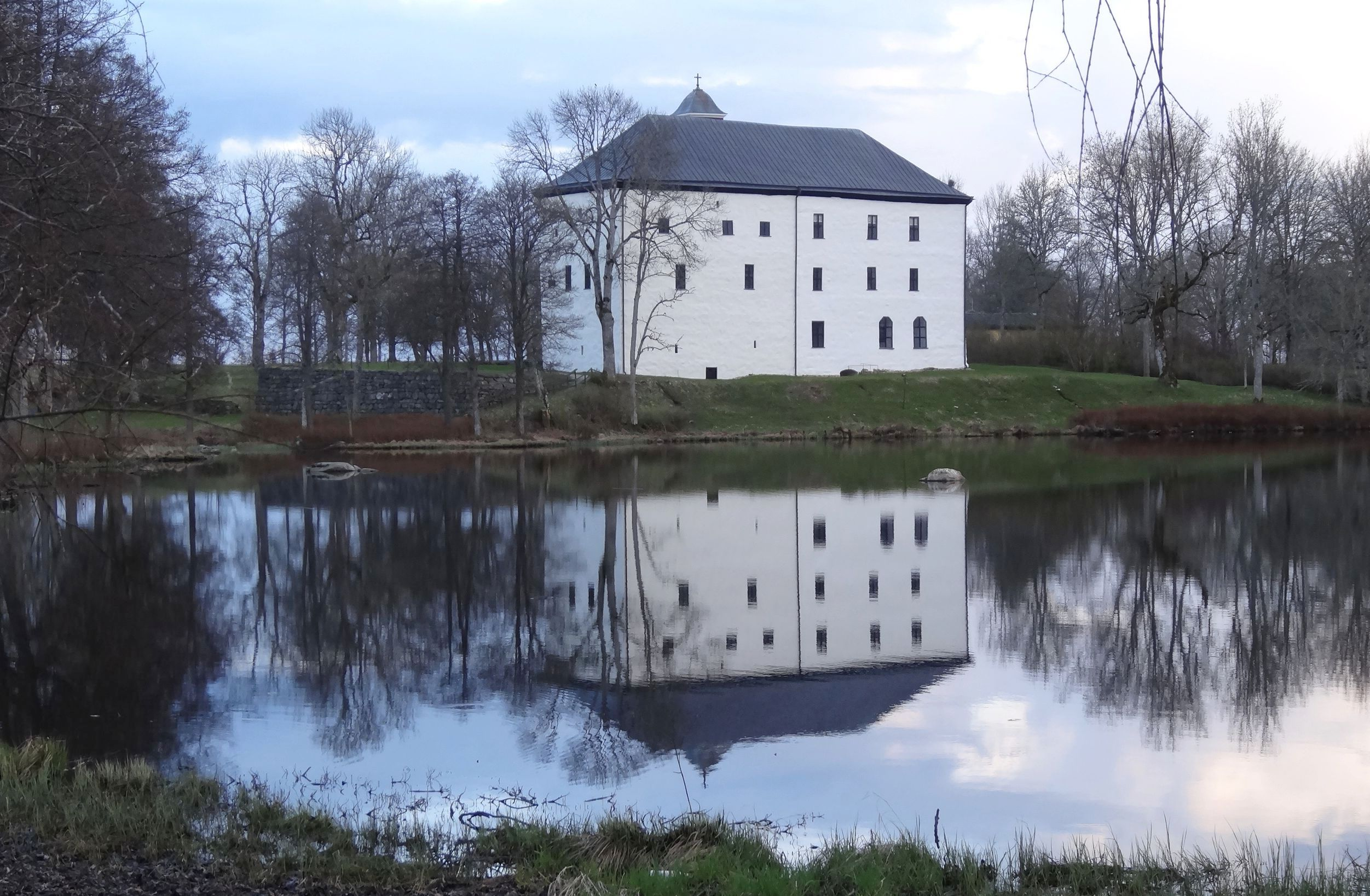 Torpa stonehouse, a 15th-century fortified house southeast of Borås, Sweden.